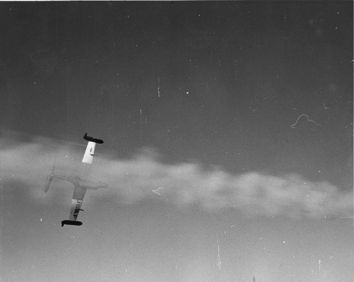 Operation Plumbbob - John test. LAS VEGAS, NV. Launch of an AIR-2A Genie nuclear air to air rocket. The launching Scorpion, still enveloped in the rocket’s smoke trail, is shown banking at about 70 degrees to evade the forthcoming nuclear explosion. The atomic rocket is now far past the Scorpion to the right of the photograph.